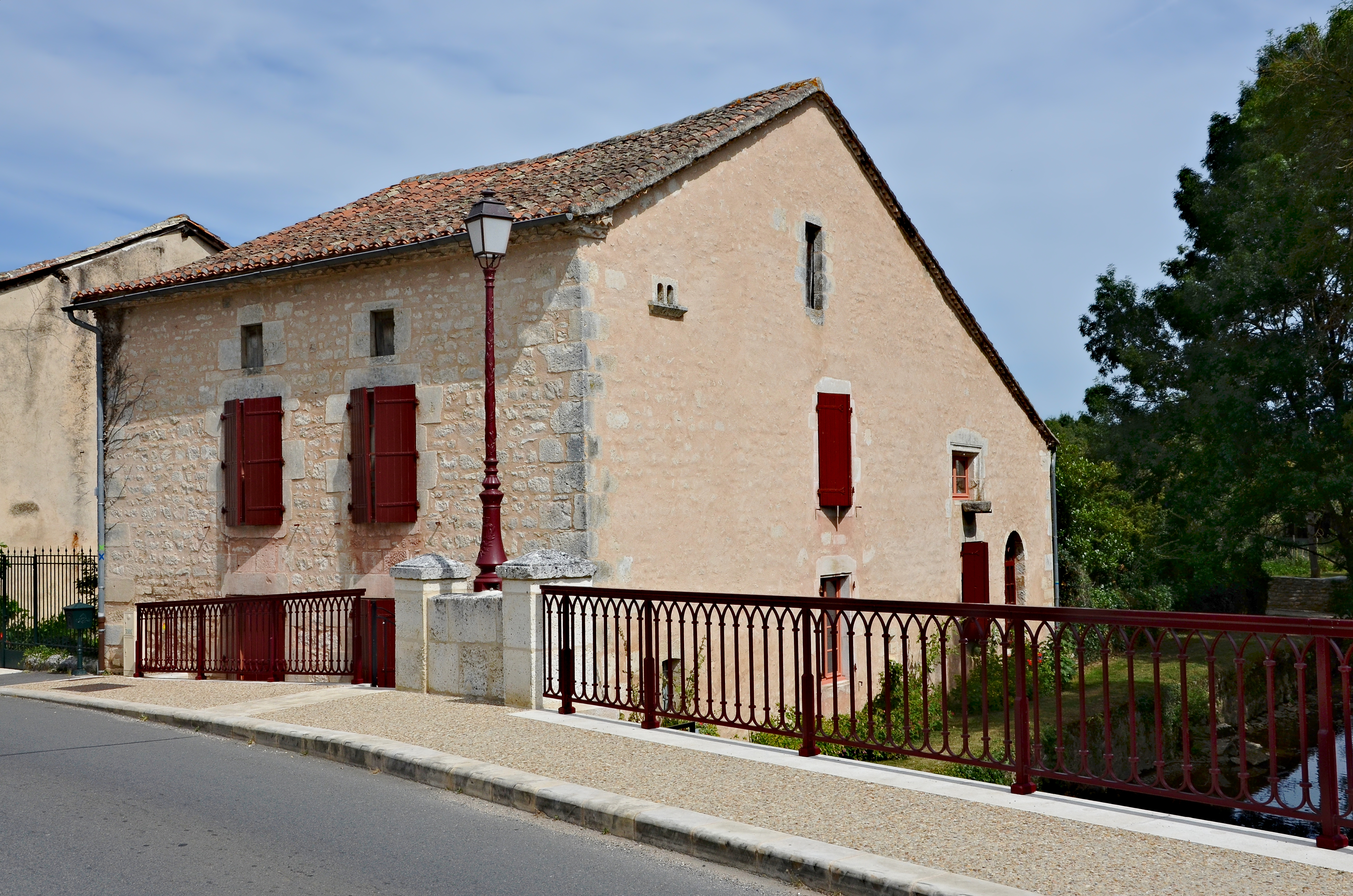 Old traditional house, now renewed, near the river Bandiat. Marthon, Charente, France.